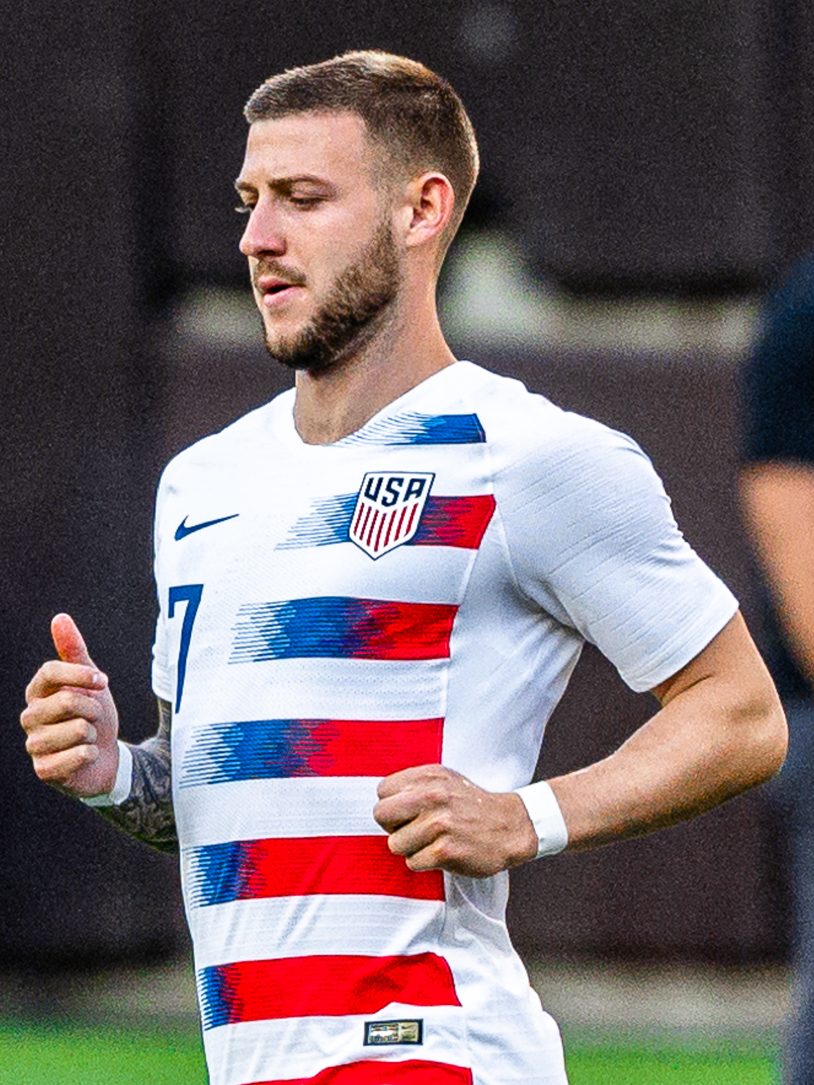 USMNT vs. Trinidad and Tobago